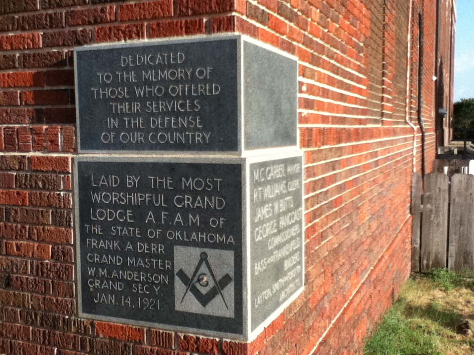 The cornerstone for Enid's Convention Hall, noting that the building was dedicated in honor of war veterans.